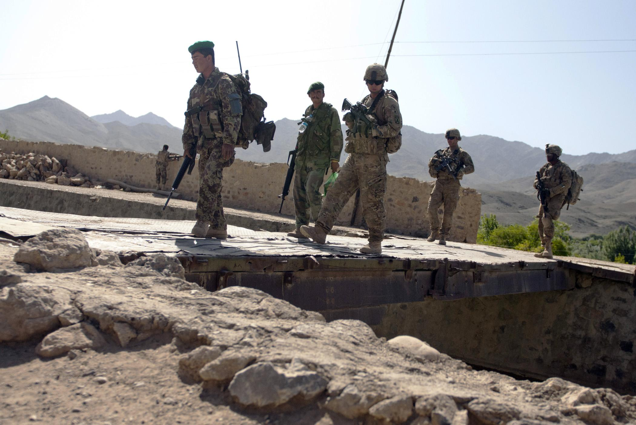 U.S. and Afghan National Army soldiers examine a bridge as they cross at the Chak Dam May 16. Task Force Warrior and Afghan troops were assessing security and economic conditions in Chak during the two-day Operation Compass. (Photo by U.S. Army Sgt. Cooper T. Cash)